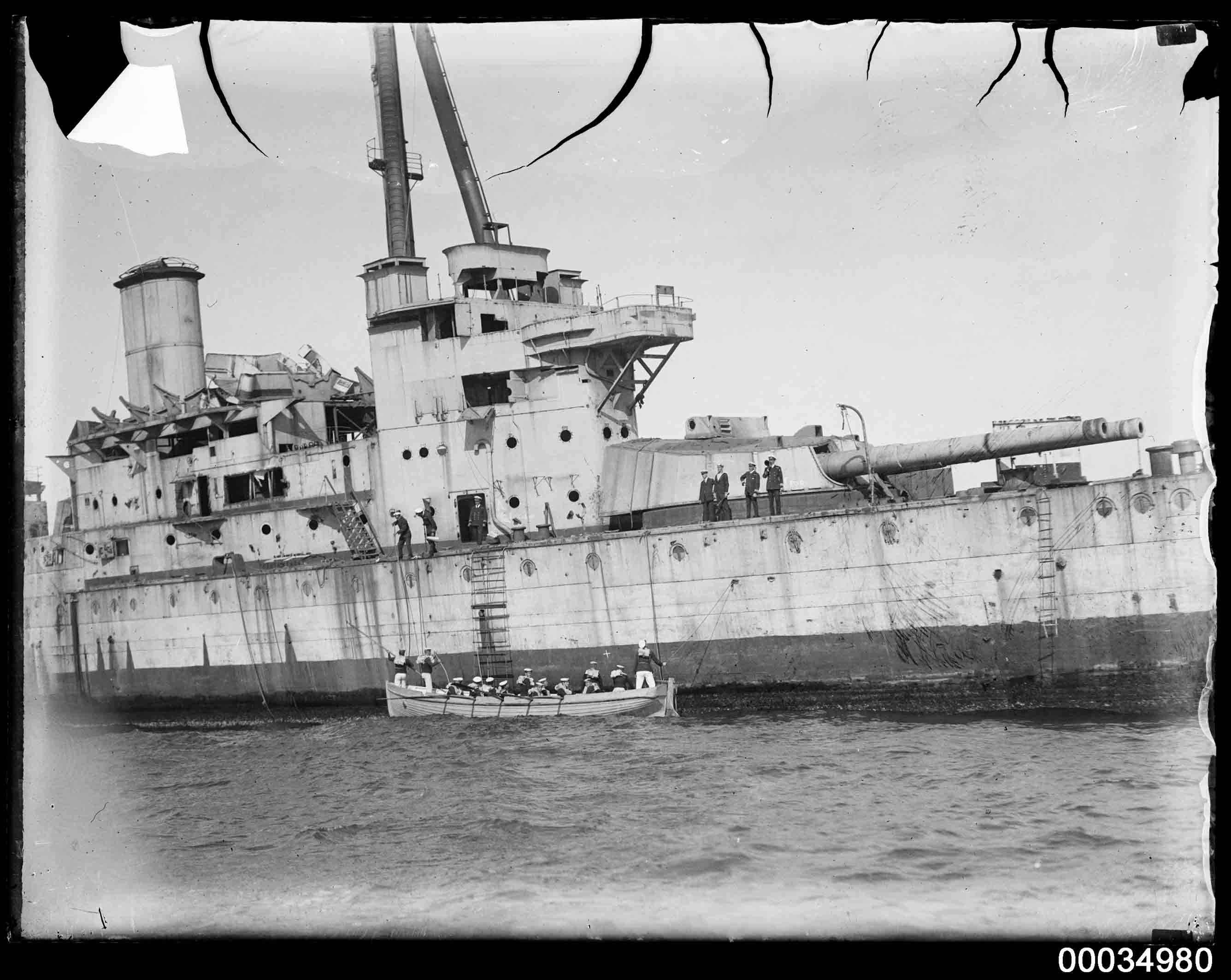 This image depicts sailors and officers on the deck of the former HMAS AUSTRALIA I before its scuttling on 12 April 1924, some 24 miles from inner South Head of Sydney. An article in 'The Sydney Morning Herald' explains the scene: 'Blue jackets in two boats from the BRISBANE went alongside the AUSTRALIA, to bring back the officers and the men who were on board the old flagship, thus making the final preparations for her burial beneath the sea.' [‘The Last Scenes’, The Sydney Morning Herald, Monday 14 April 1924, p 10] This photo is part of the Australian National Maritime Museum’s Samuel J. Hood Studio collection. Sam Hood (1872-1953) was a Sydney photographer with a passion for ships. His 60-year career spanned the romantic age of sail and two world wars. The photos in the collection were taken mainly in Sydney and Newcastle during the first half of the 20th century. The ANMM undertakes research and accepts public comments that enhance the information we hold about images in our collection. This record has been updated accordingly. Photographer: Samuel J. Hood Studio Collection Object no. 00034980